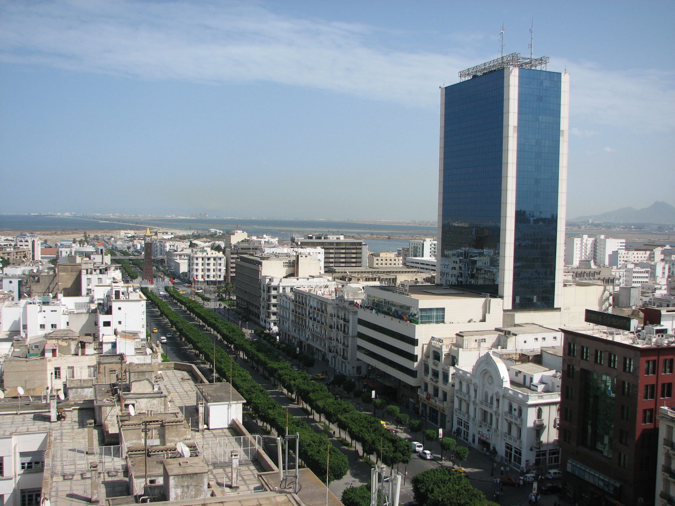 Ave Habib Bourguiba looking west toward Lake Tunis. Taken from the roof of the Hotel el-Hana.